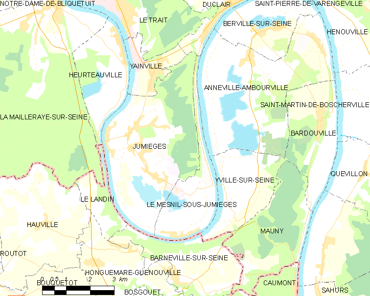 Map of French municipality Le Mesnil-sous-Jumièges